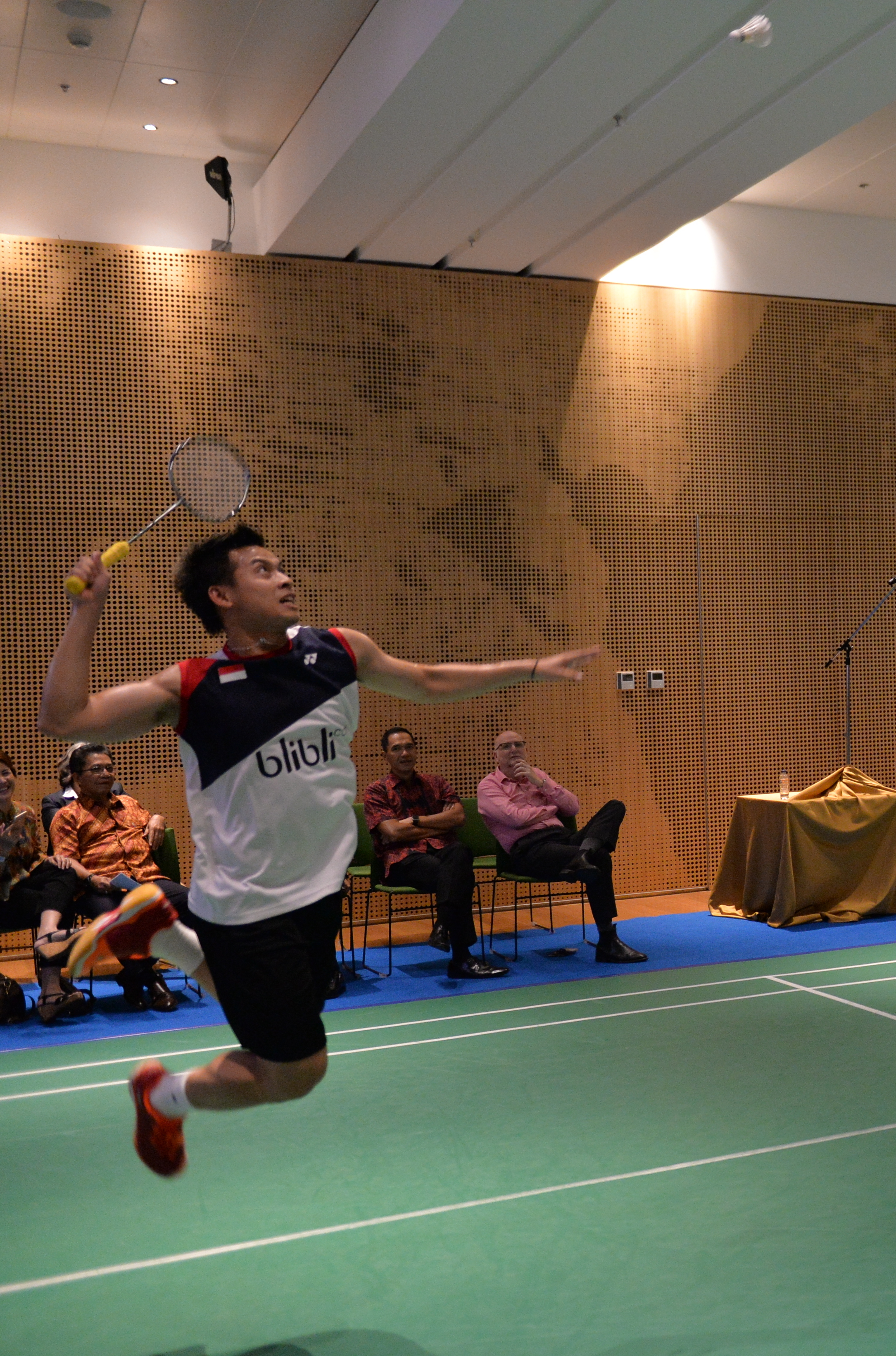 Gronya Somerville, Riky Widianto and Setyana Mapasa at the friendly match badminton Australia and Indonesia 2016 in Australian Embassy Jakarta